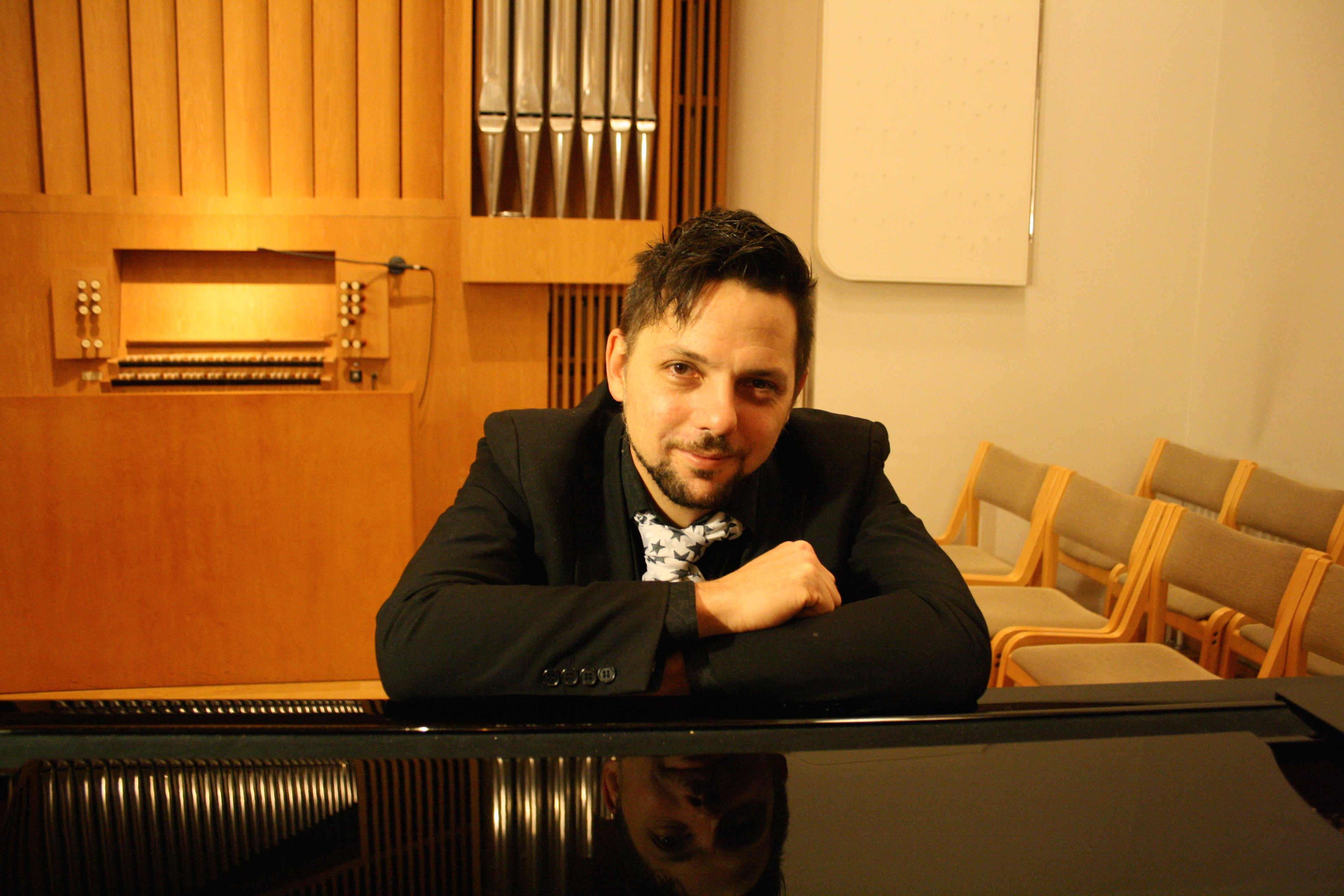 Pekka Nebelung, musician, Finland